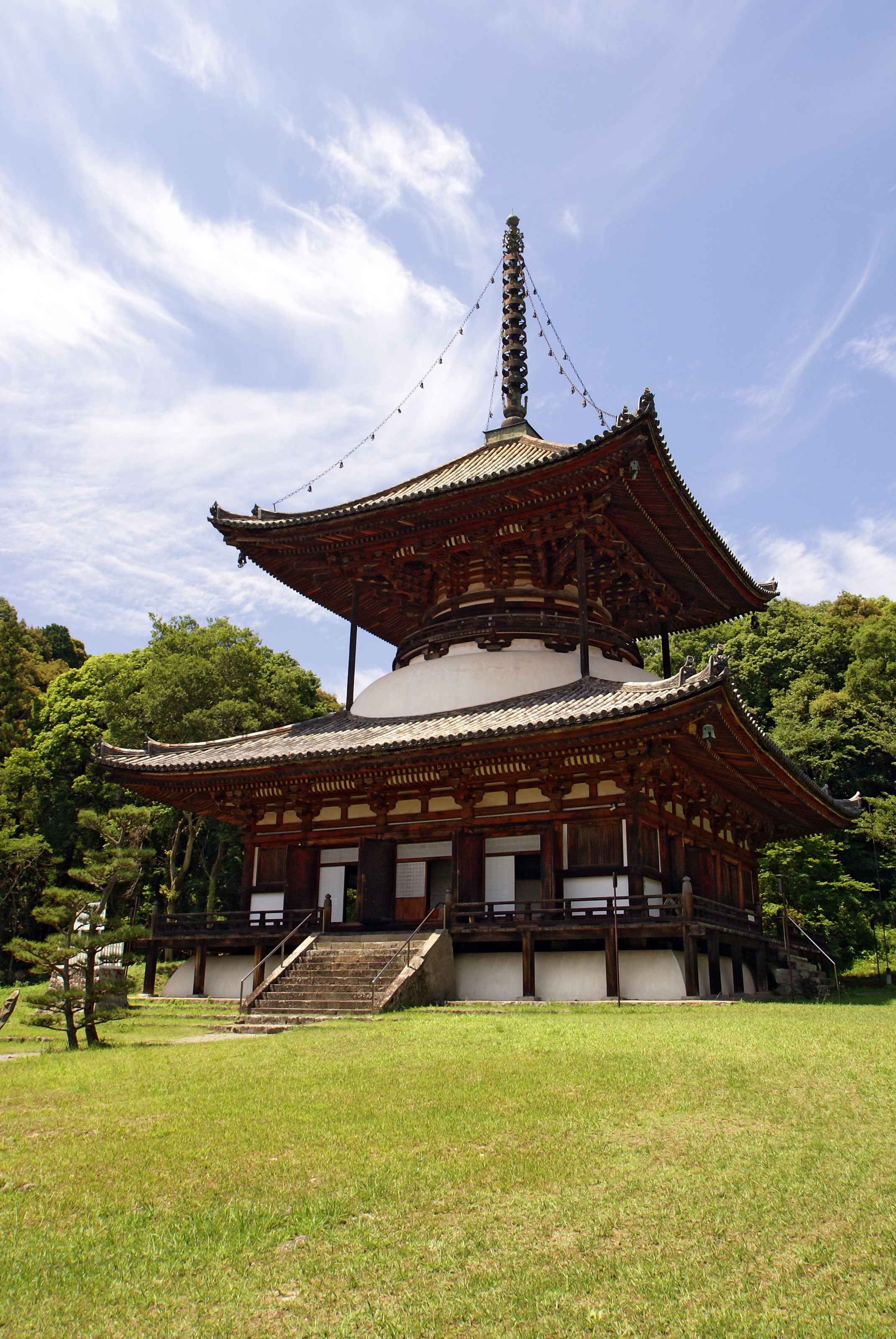 Pagoda of Negoro-ji is Japan's National Treasure, in Iwade, Wakayama prefecture, Japan